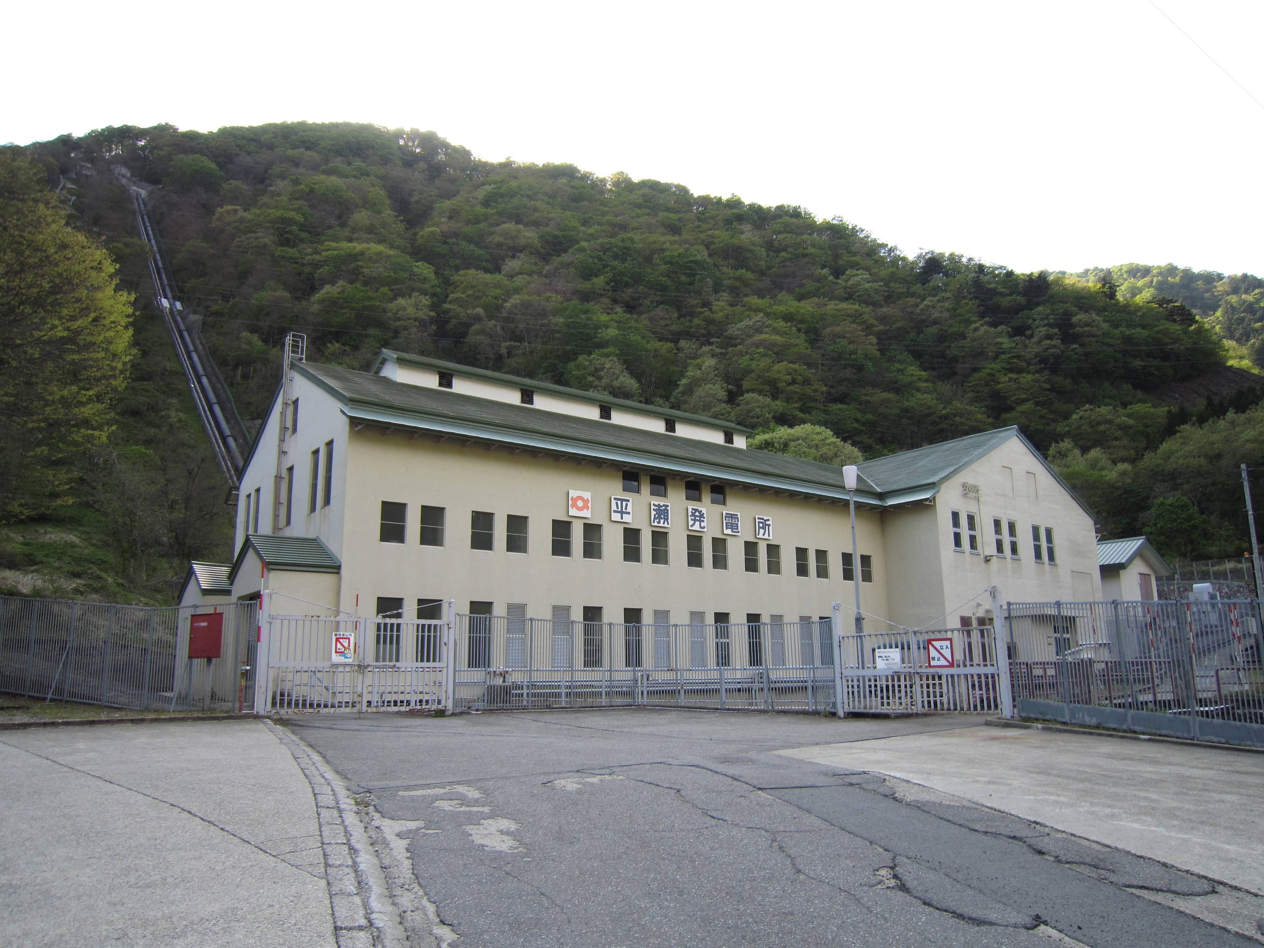 Hirase power station.